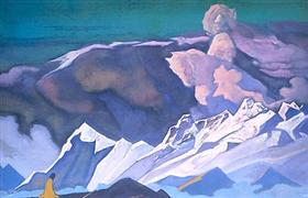 Work by Nicholas Roerich